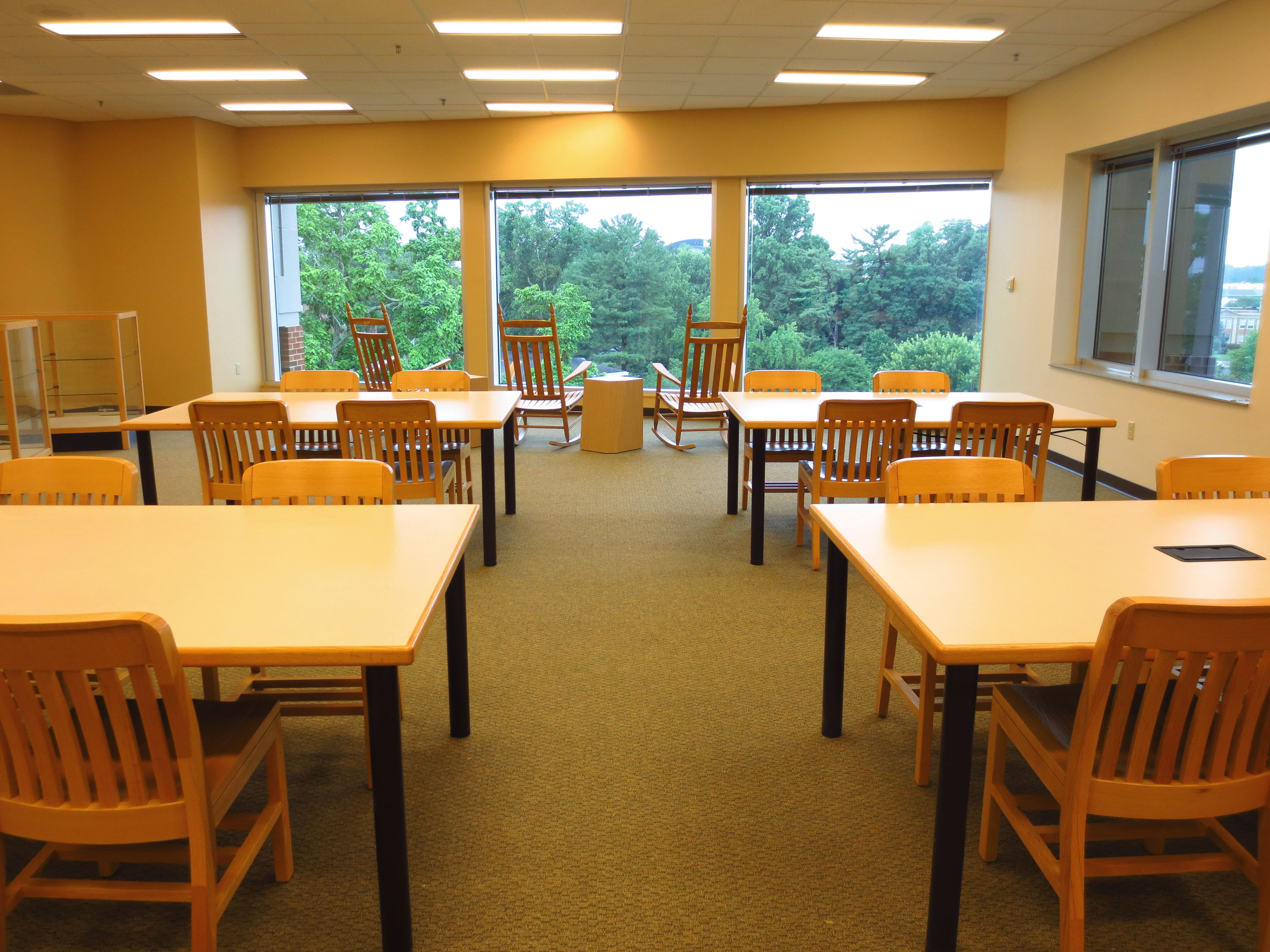 Archives of Appalachia, Reading Room